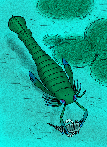 The giant Silurian eurypterid Acutiramus cummingsi (Note:Pterygotus buffaloensis is a jr synonym of Pterygotus cummingsi which in turn is a jr synonym of Acutiramus cummingsi)